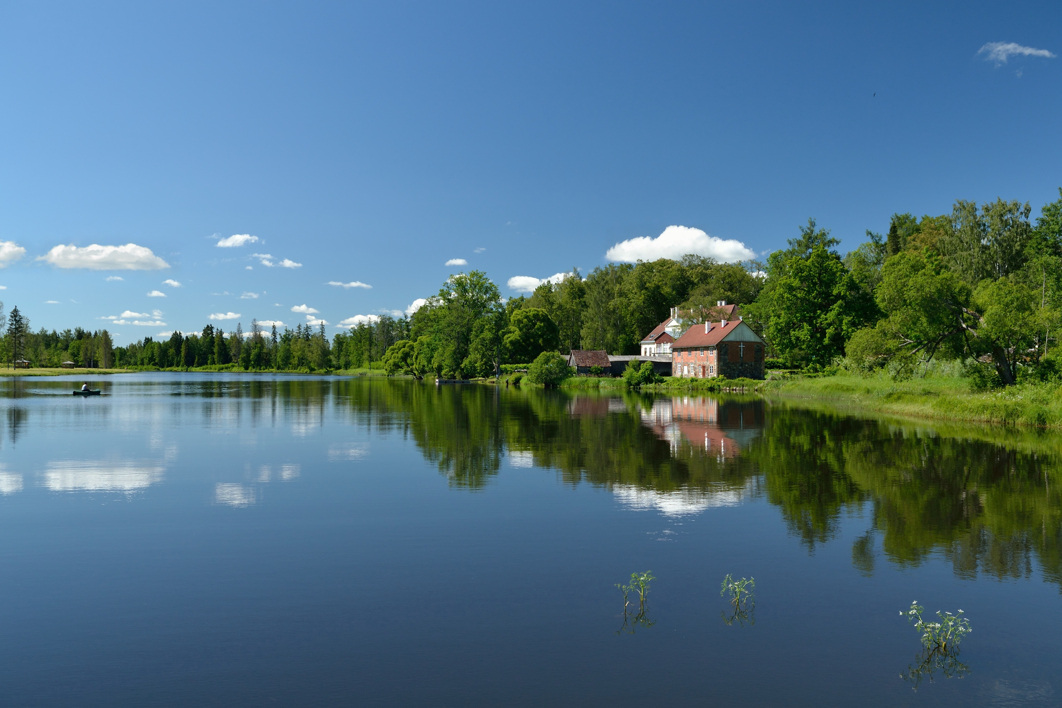 Hellenurme impounded lake on Elva river